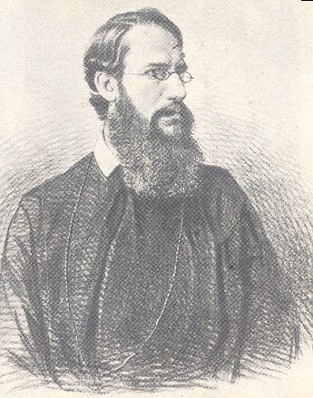 Belgian Jesuit Father, Eugène Lafont (1837-1908) promoter of science education in India (St Xavier's College, Calcutta)